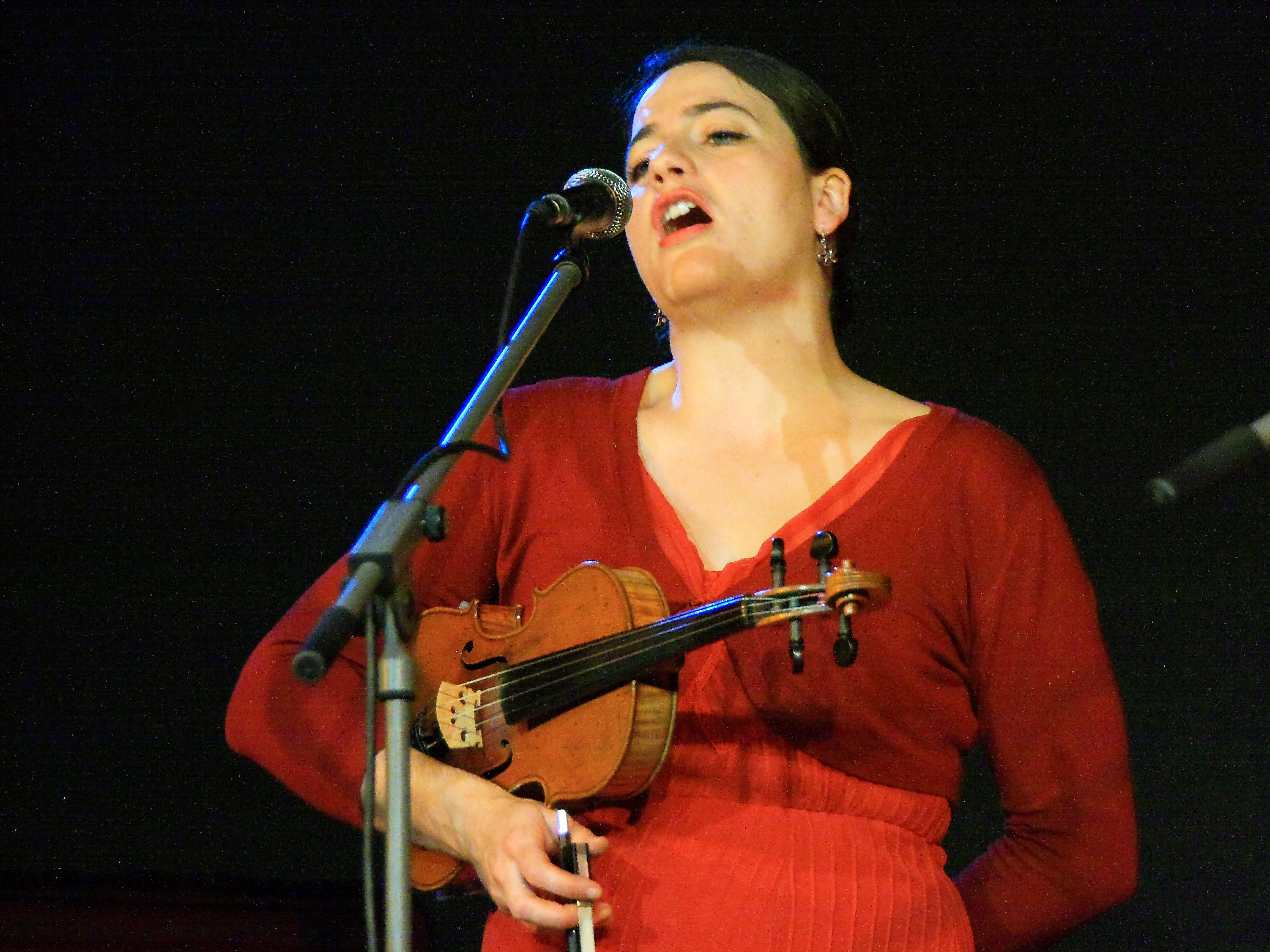 Concert of the bavarian folk-msic-group Zwirbeldirn at Kult, Niederstetten.